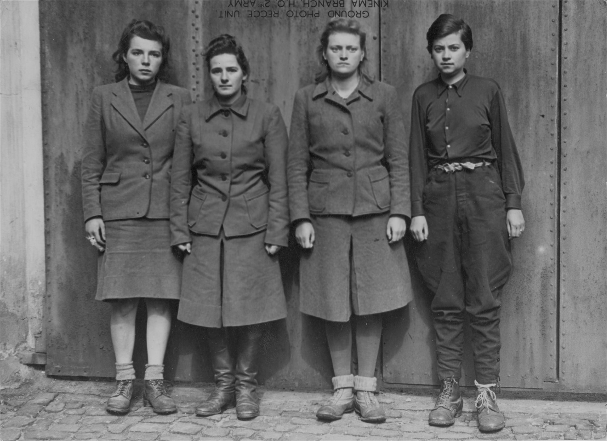 Marta Löbelt telephone operator, Gertrud Rheinhold, Irene Haschke and Anneliese Kohlmann shortly after their arrest at Bergen Belsen, 02 May 1945. The first three are wearing their Nazi uniform while Kohlmann is wearing poorly fitted men's uniform because when arrested she was wearing prisoner uniform trying to disguise herself as a Jewish woman.